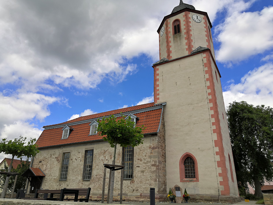 Church in Herrmannsfeld